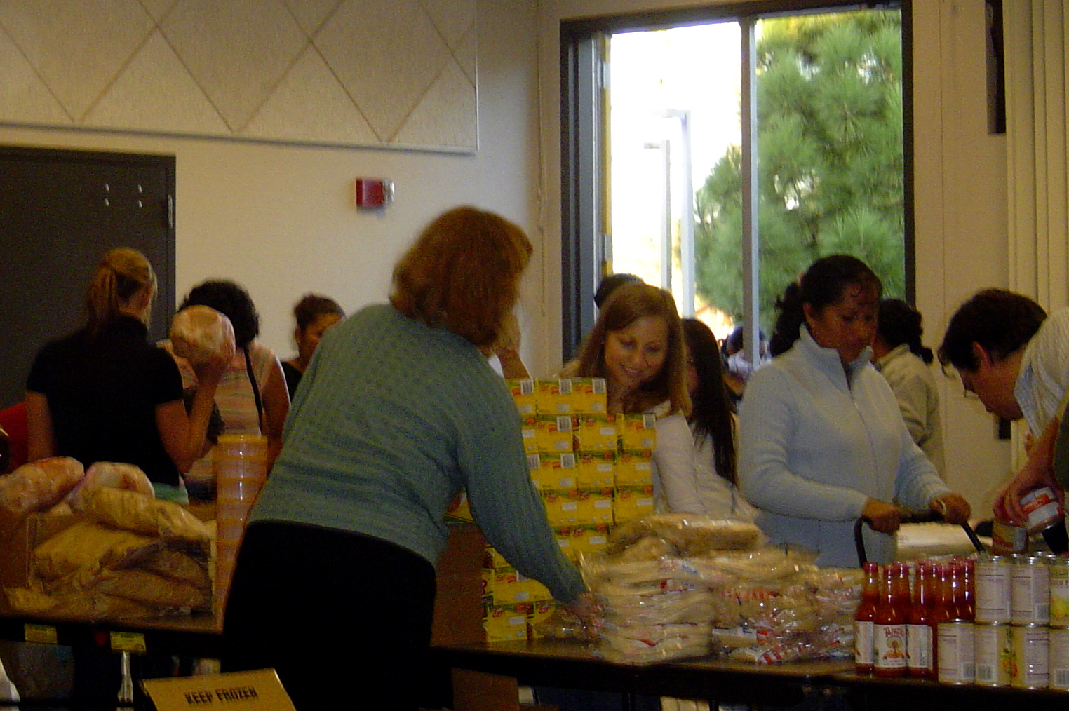 LG office passes out groceries with Second Harvest Food Bank – Dec. 06